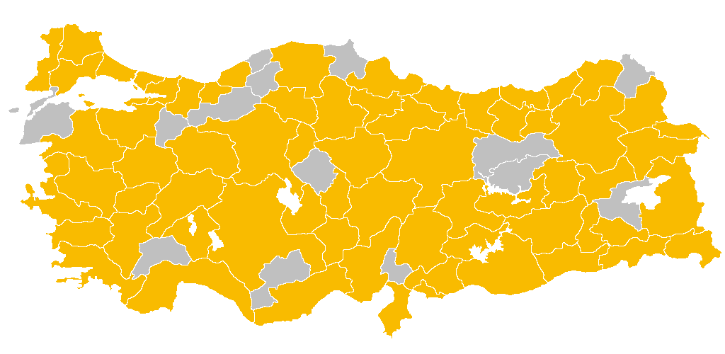 Election rallies of the Justice and Development Party for the Turkish general election, 2011.